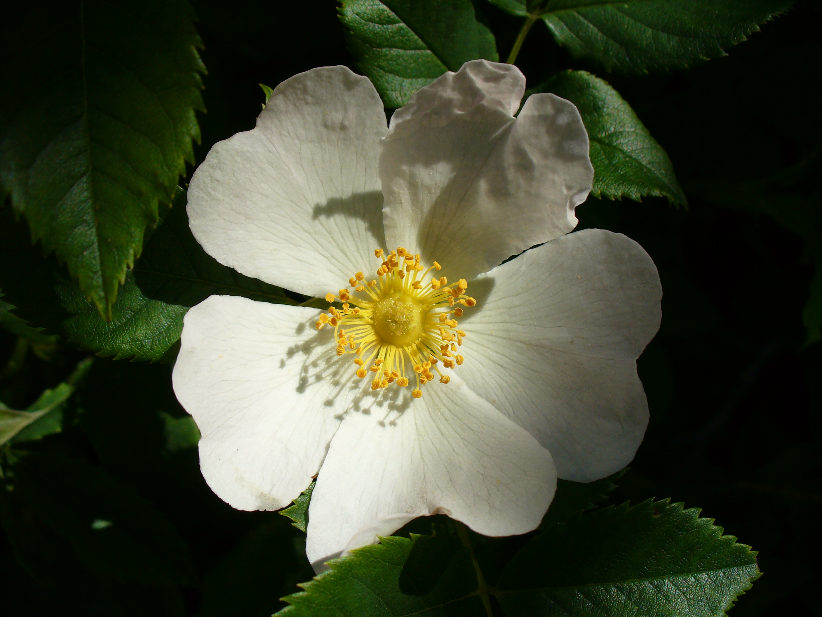 I am the originator of this photo. I hold the copyright. I release it to the public domain. This photo depicts a rose flower.